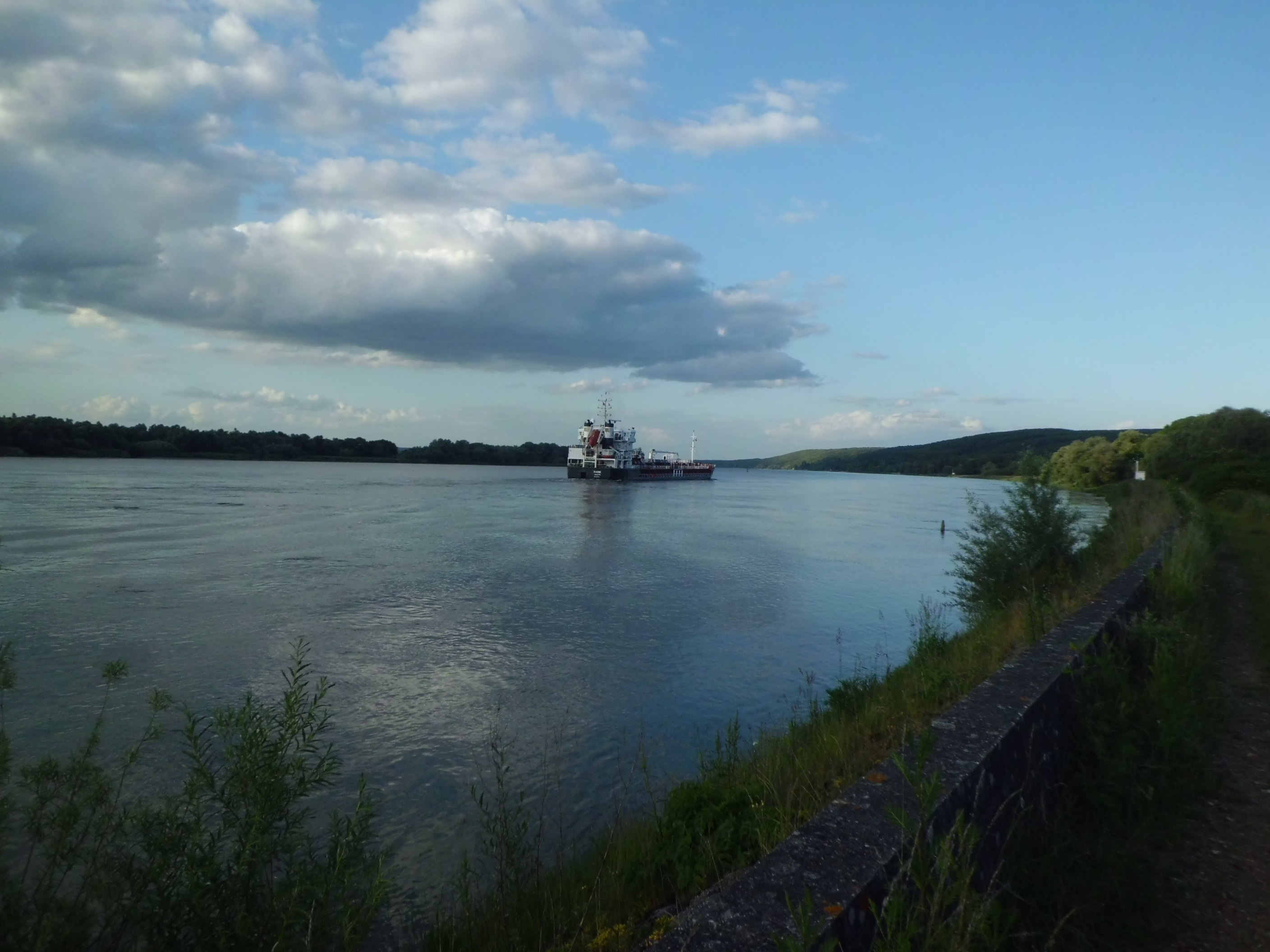 The Seine River at Vieux-Port, Normandy